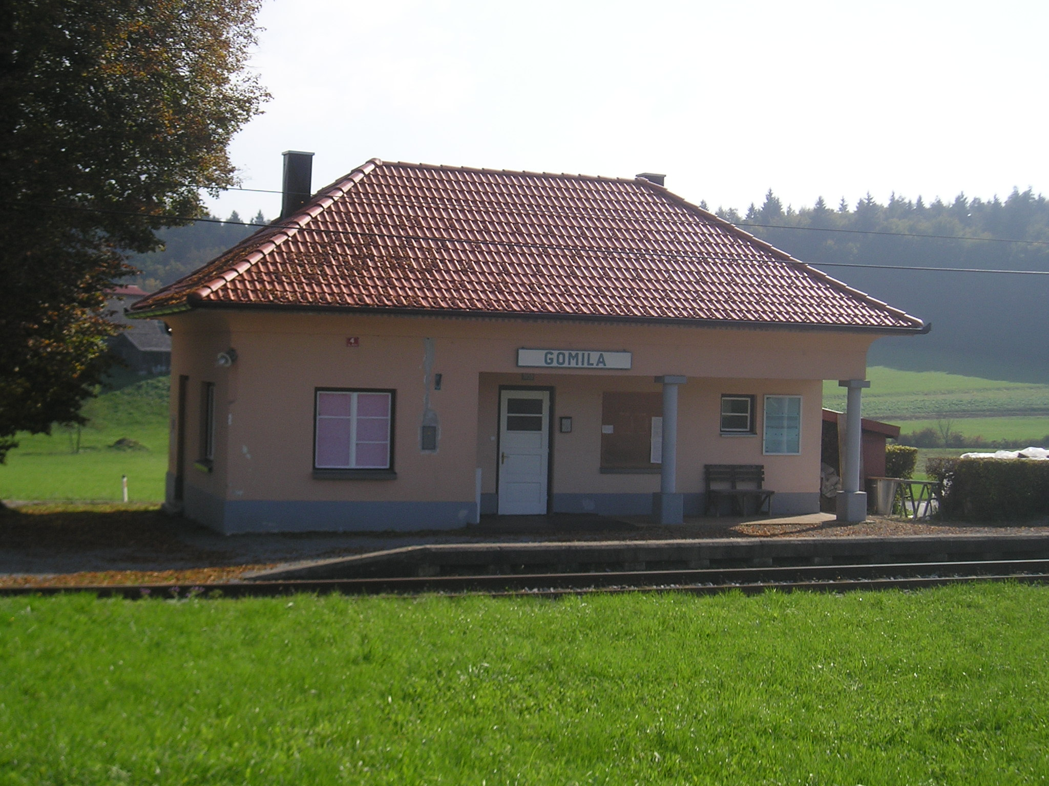 Railway halt in Gomila, Slovenia